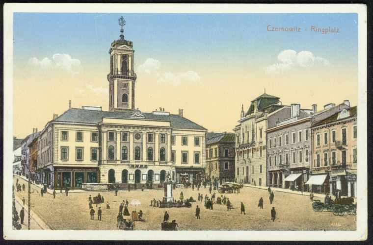 Chernivtsi city in Bukovyna, western Ukraine, early 20th cen. Ca. 1905. Austro-Hungarian empire.